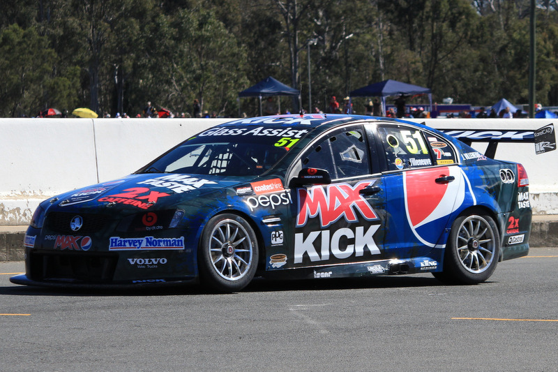 Jacques Villeneuve drives car #51 at the 2012 Coates Hire Ipswich 300 for Kelly Racing, filling in for Greg Murphy.